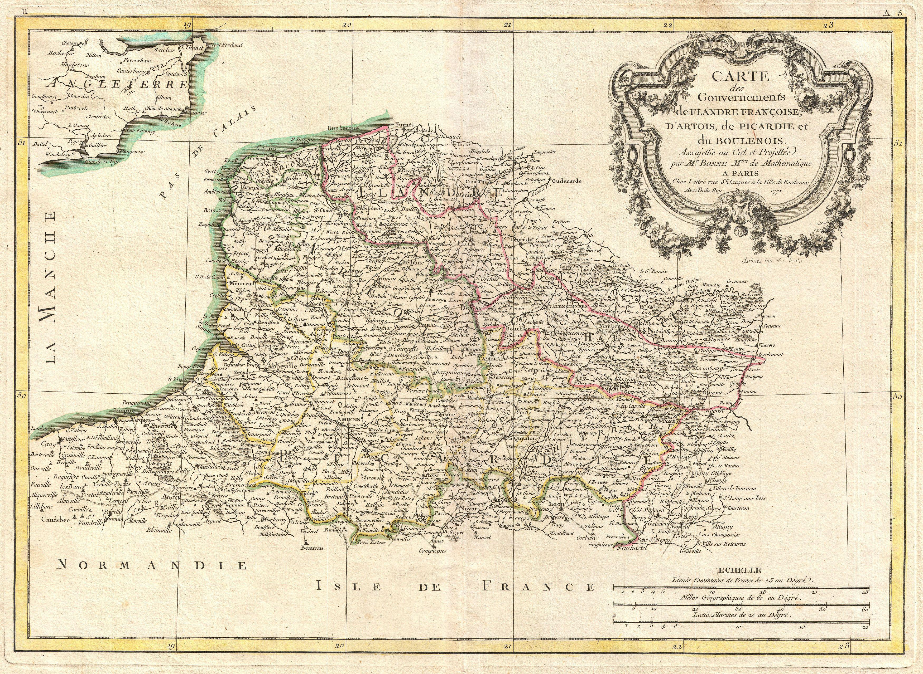 A beautiful example of Rigobert Bonne's decorative map of the French regions of Picardy, Artois, and French Flanders. Covers the region in full from the English Chanel to Normandy. large decorative title cartouche appears in the upper right quadrant. Drawn by R. Bonne in 1771 for issue as plate no. A 5 in Jean Lattre's 1776 issue of the Atlas Moderne .